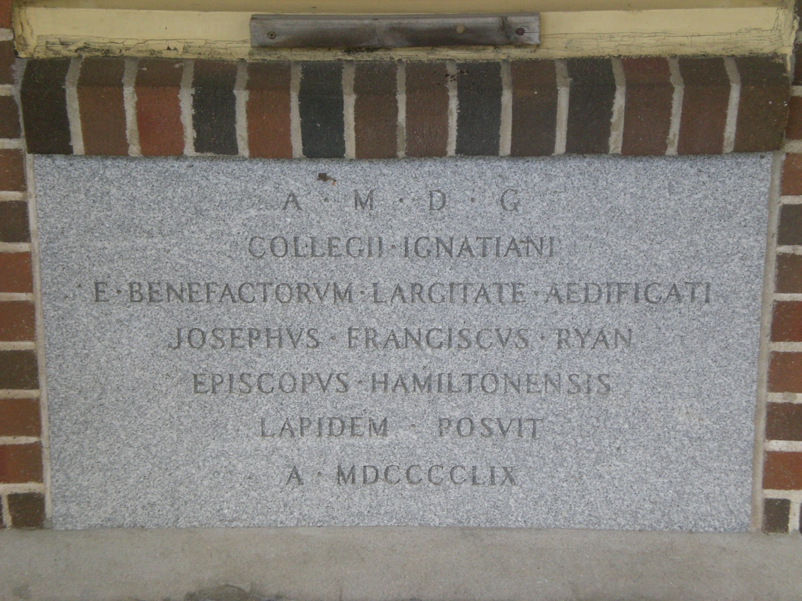 Photo of a commemorative brick in the Ignatius Centre in Guelph, Ontario. Translated it reads: AMDG Ignatius College Edified by the generosity of benefactors Joseph Francis Ryan Bishop of Hamilton Stone placed 1959.